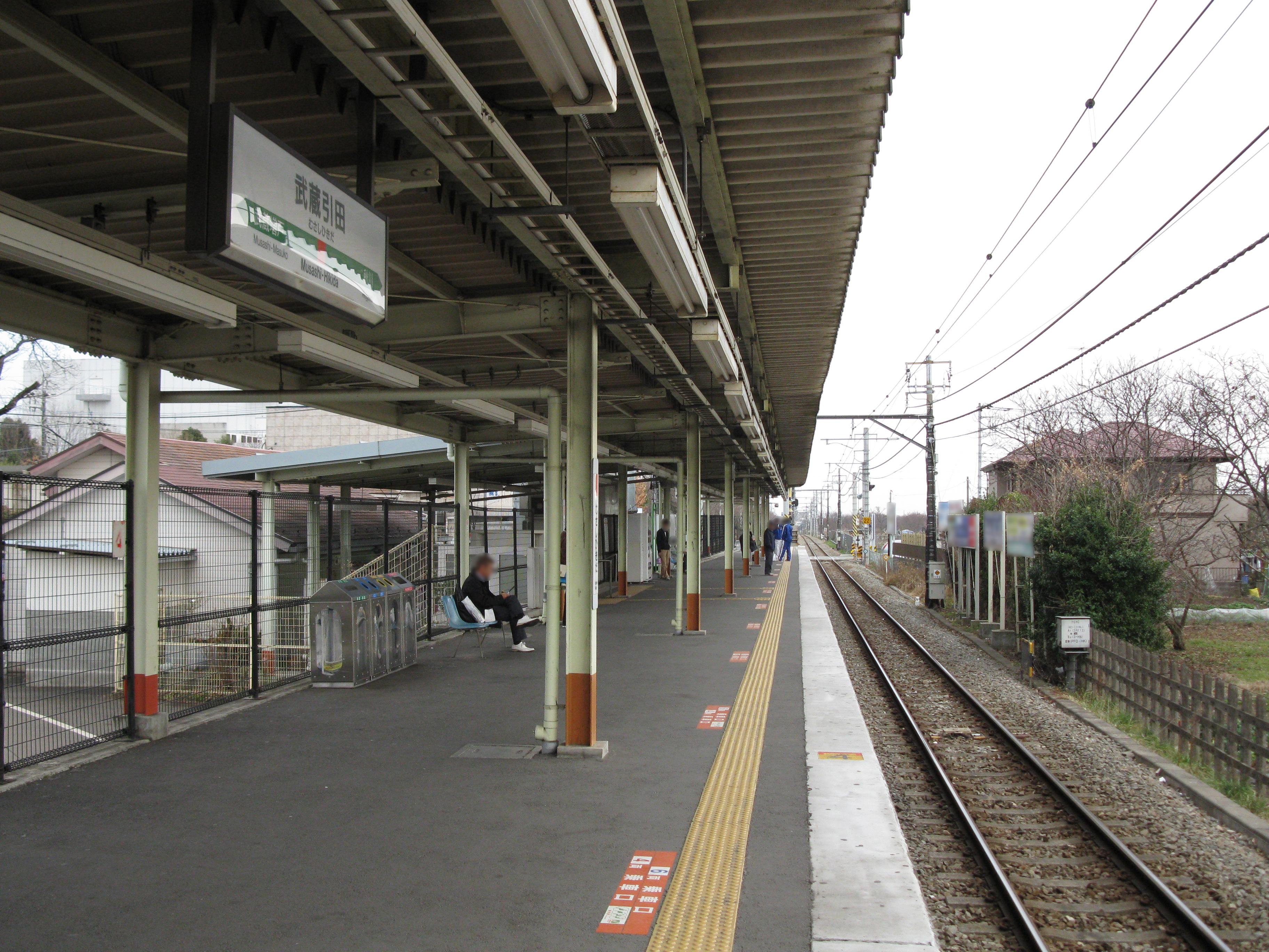 Musashi-Hikida Station platform (East Japan Railway Itsukaichi Line)